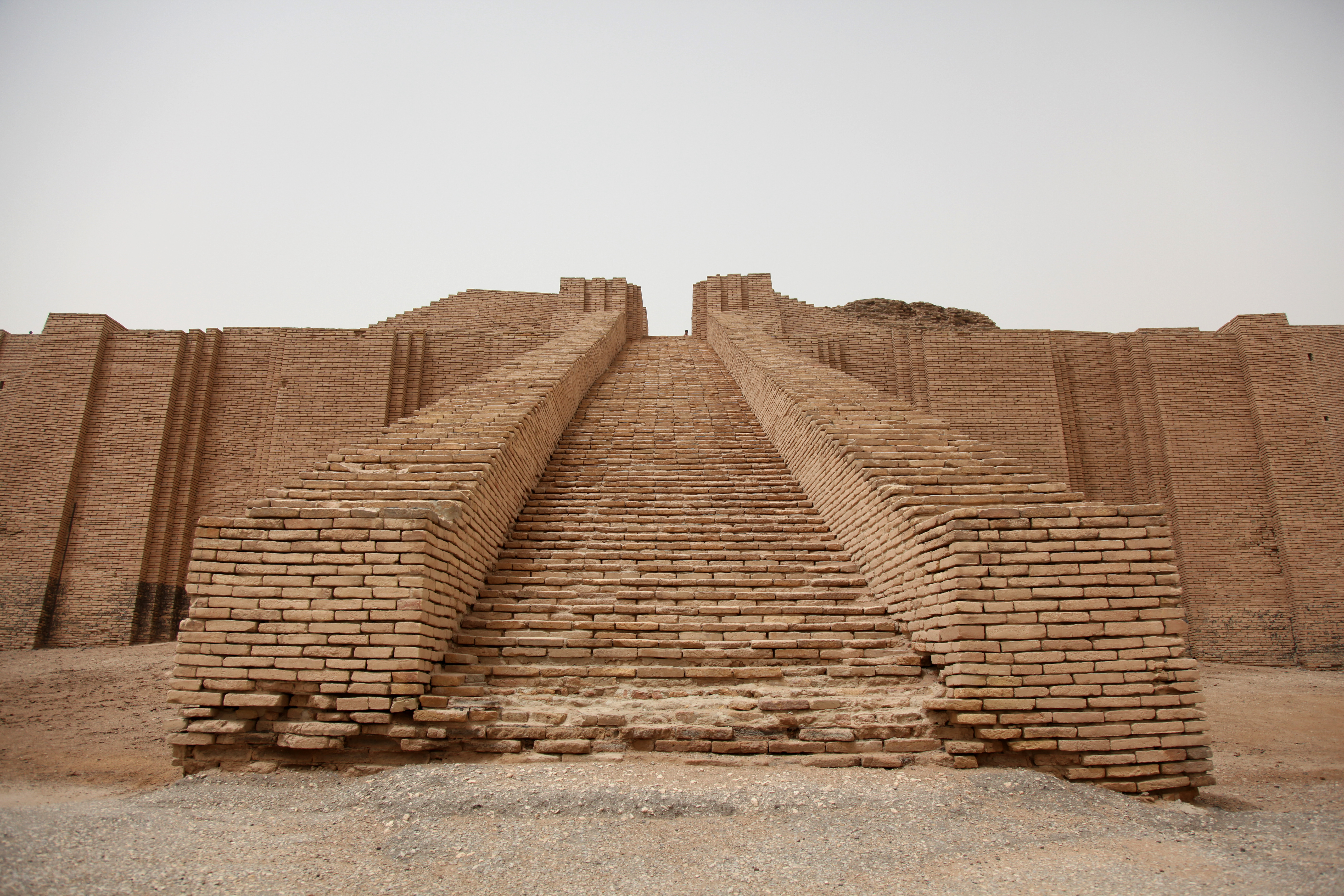 U.S. Soldiers from 17th Fires Brigade visit a historical site, the Ziggurat of Ur, Iraq near Contingency Operating Base Adder, May 18. The Ziggurat was constructed by King Ur-Nammu as a place of worship in the 21st century B.C. and today after more than 4,000 years it is one of the most wel-preserved structures of the Neo-Sumerian city of Ur. Unit: Joint Combat Camera Center Iraq